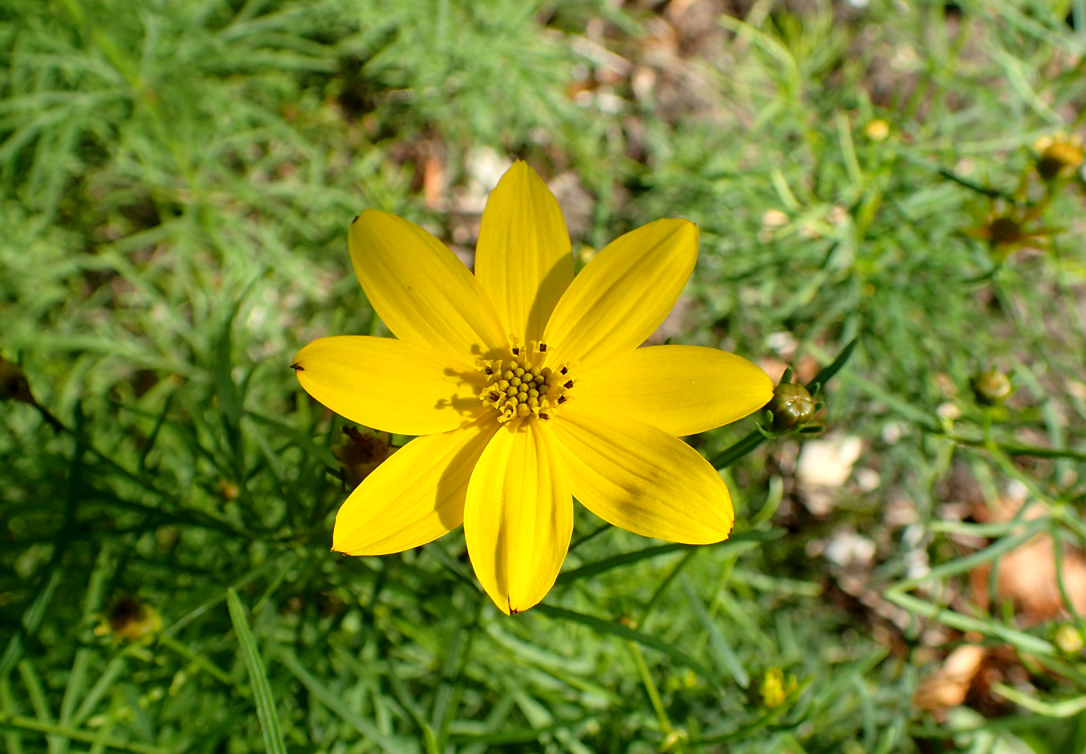 Coreopsis verticillata in Warsaw University Botanical Garden